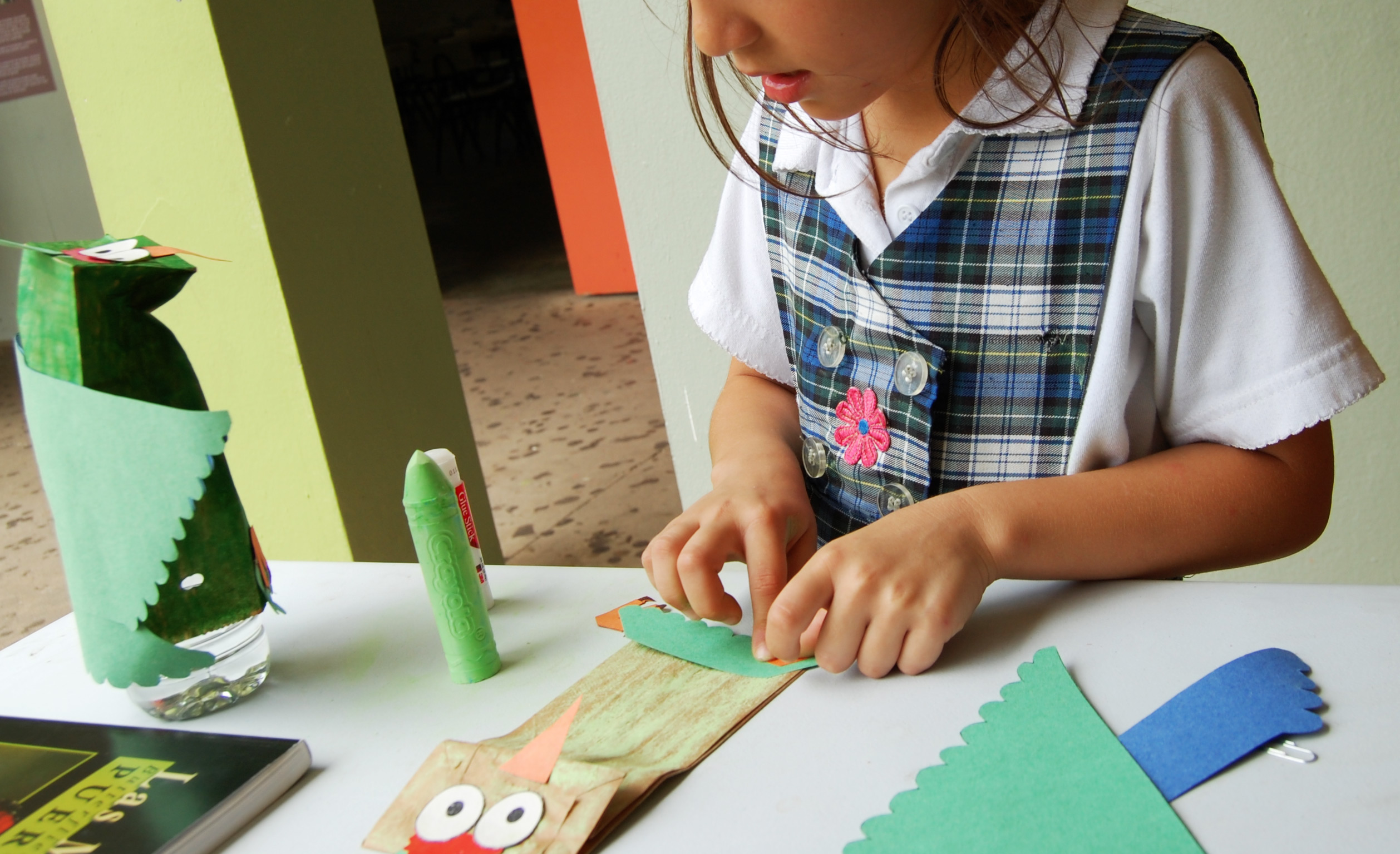 By: Lilibeth Serran (USFWS) May 4, 2012 Maricao, Puerto Rico The first girl participating.